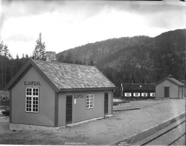 Djupdal railway station on Numedalsbanen in Rollag Norway.